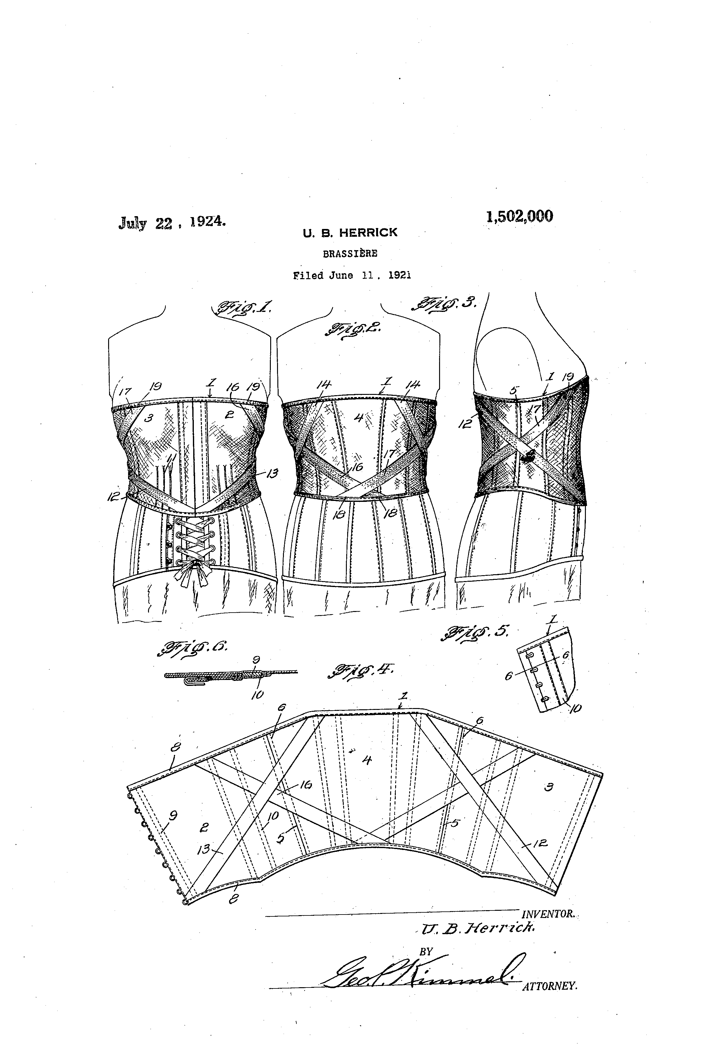 Numero di pubblicazione US1502000 A Tipo di pubblicazione Concessione Data di pubblicazione 22 lug 1924 Data di registrazione 11 giu 1921 Data di priorità 11 giu 1921 Inventori Herrick Una B Assegnatario originale Herrick Una B Esporta citazione BiBTeX, EndNote, RefMan Con riferimenti in (7), Classificazioni (5)